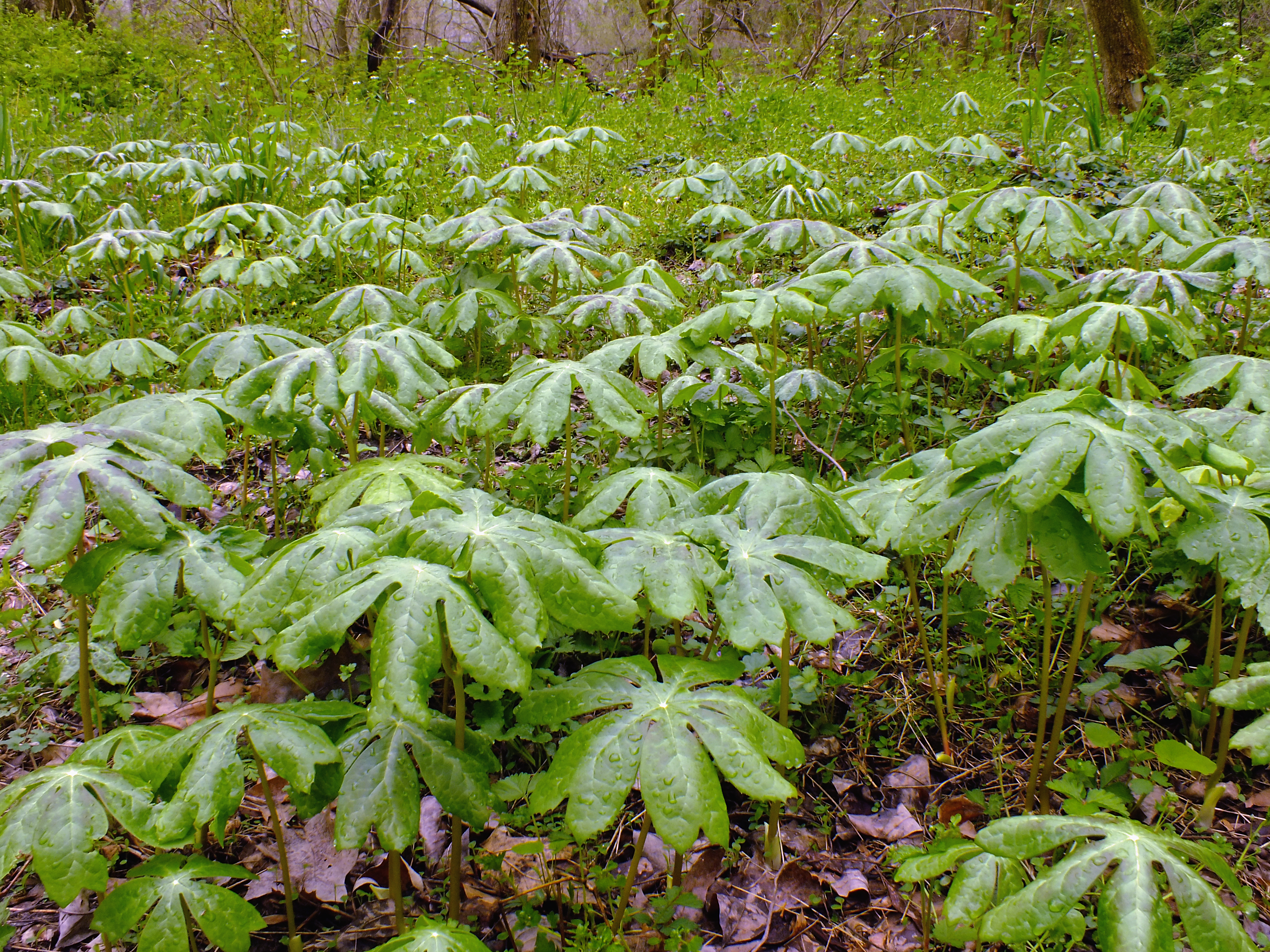 Mayapples Podophyllum peltatum, Lancaster County, within the Shenks Ferry Wildflower Preserve.